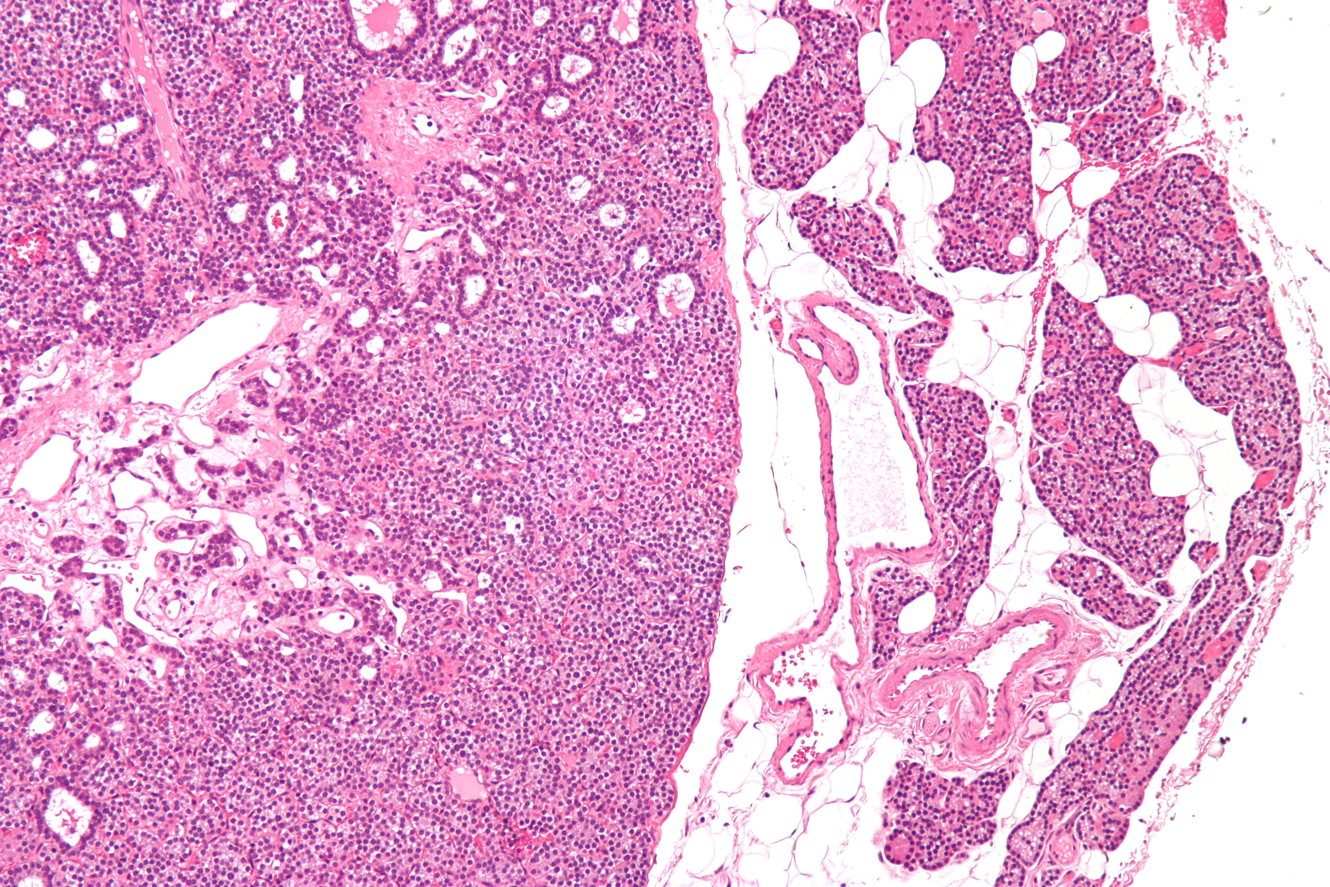 Low magnification micrograph of a parathyroid adenoma. H&E stain. Features: Single cell population forming a single mass. Thin capsule. No adipose tissue. +/-Glandular architecture (which may lead to confusion with thyroid tissue). Normal parathyroid gland with prominent adipose tissue is seen on the right of the image. Related images Parathyroid adenoma Low mag. Intermed. mag. High mag. Parathyroid gland Low mag. Intermed. mag. High mag. High mag. (cropped) High mag. (cropped)